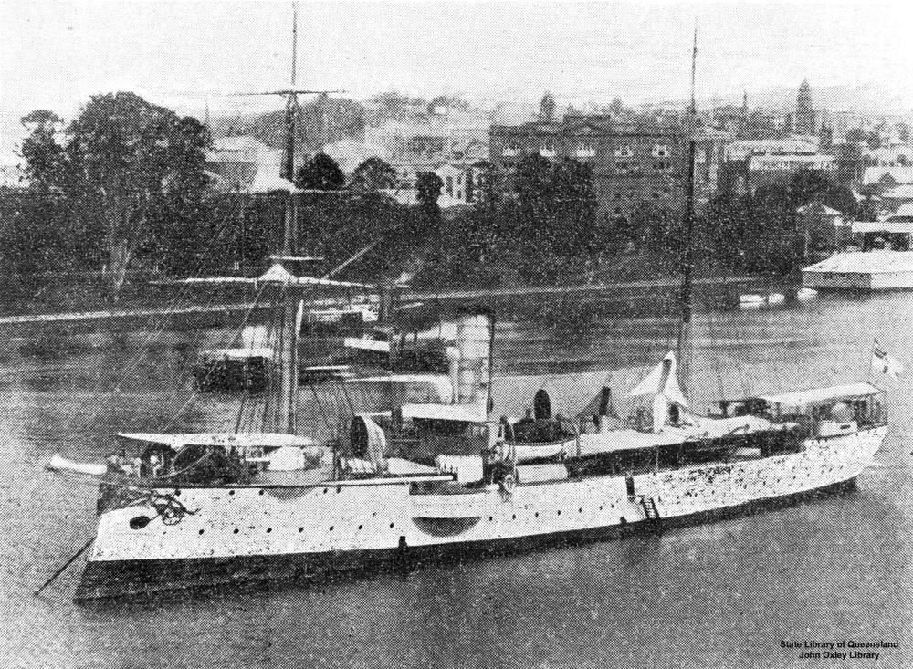 Cormoran (ship) moored opposite the Botanic Gardens in Brisbane. The building on the river to the extreme right of the image is a floating swimming bath, designed to protect bathers from sharks. (Description supplied with photograph). Cormoran was a small German cruiser built in 1893. She was commissioned for Colonial service and based in China from 1908 until 1914 when she was sunk.